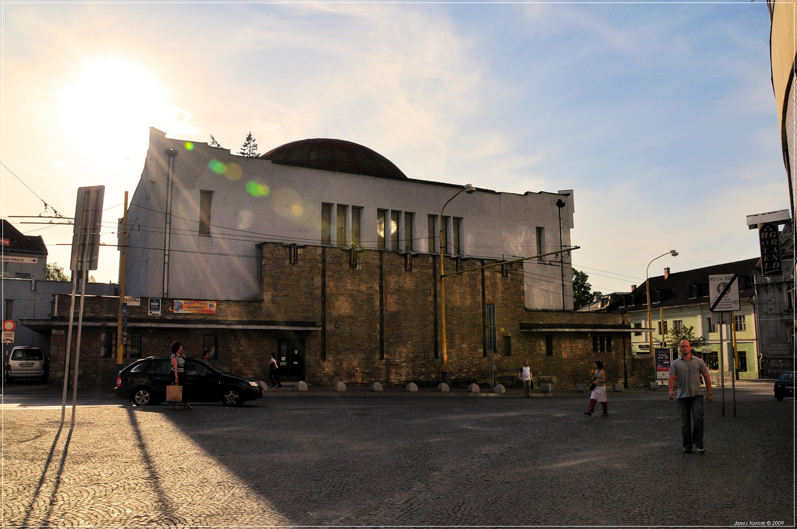 former synagogue in Žilina/Slovakia by Peter Behrens, nowadays cinema and theatre